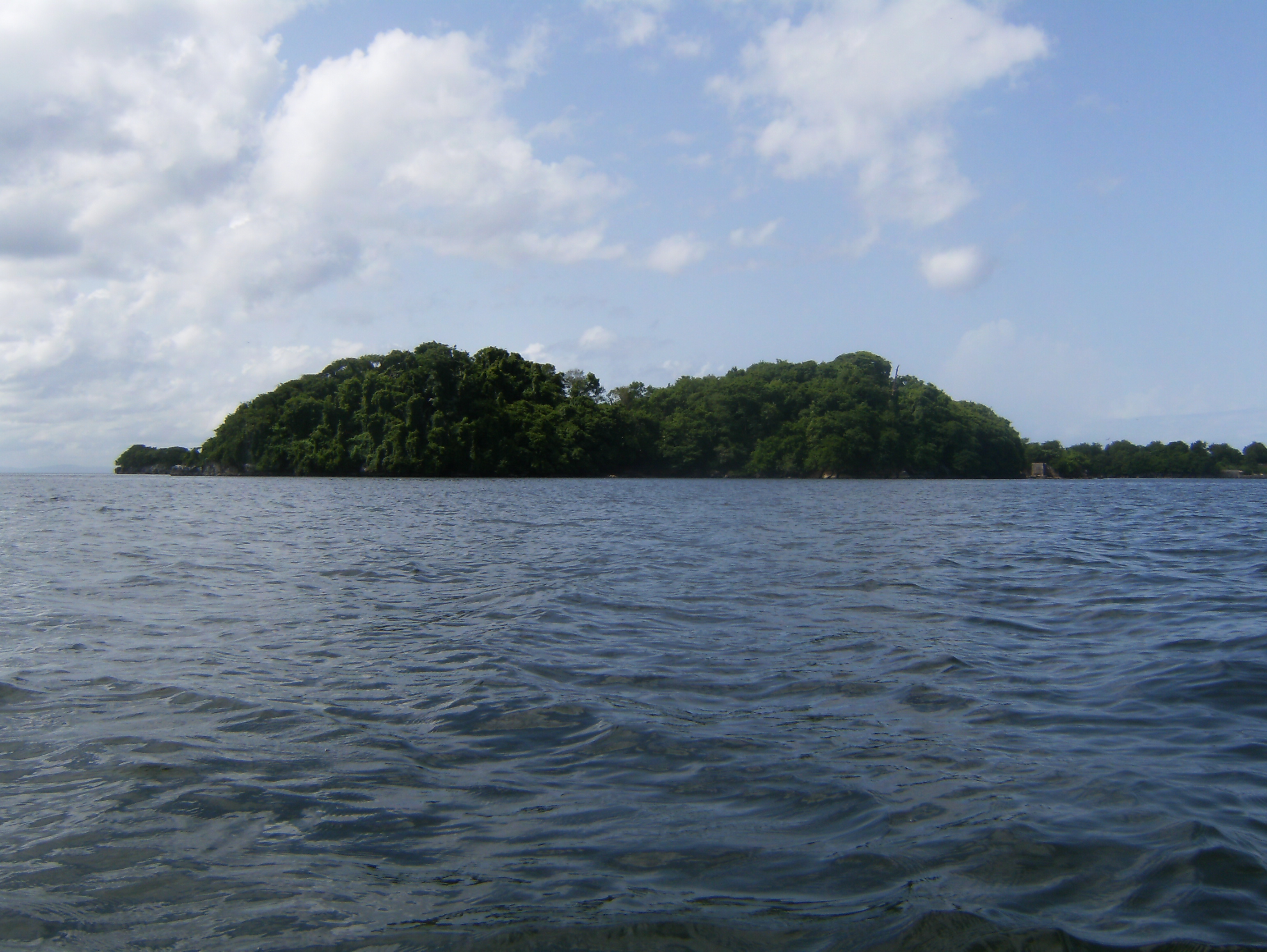 View of Caledonia Island, one of the Five Islands in Trinidad and Tobago